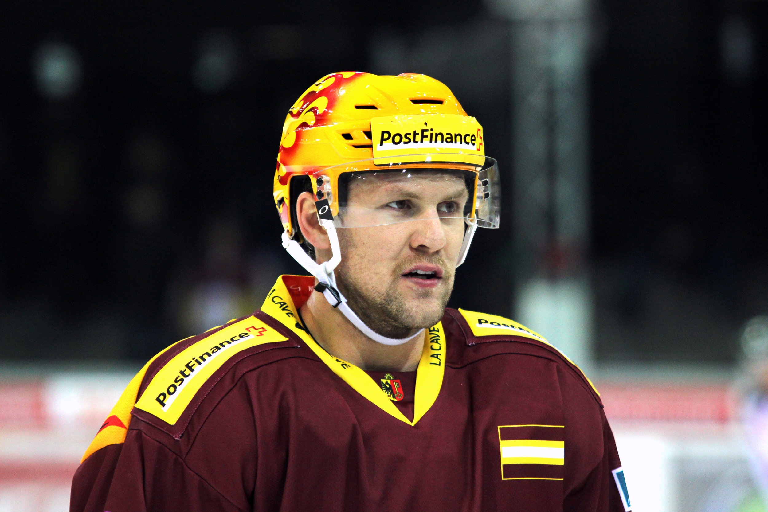 Nick Spaling (G 13, TS).